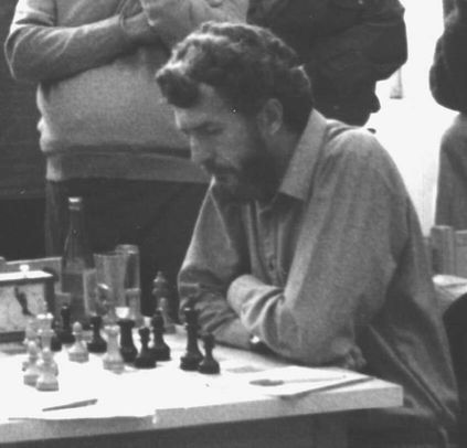 Paulo Sérgio de Castro Oliveira, six times Chess State Champion of Rio Grande do Sul, Brazil. This picture is from '91 Brazilian Championship, hosted in POrto Alegre.